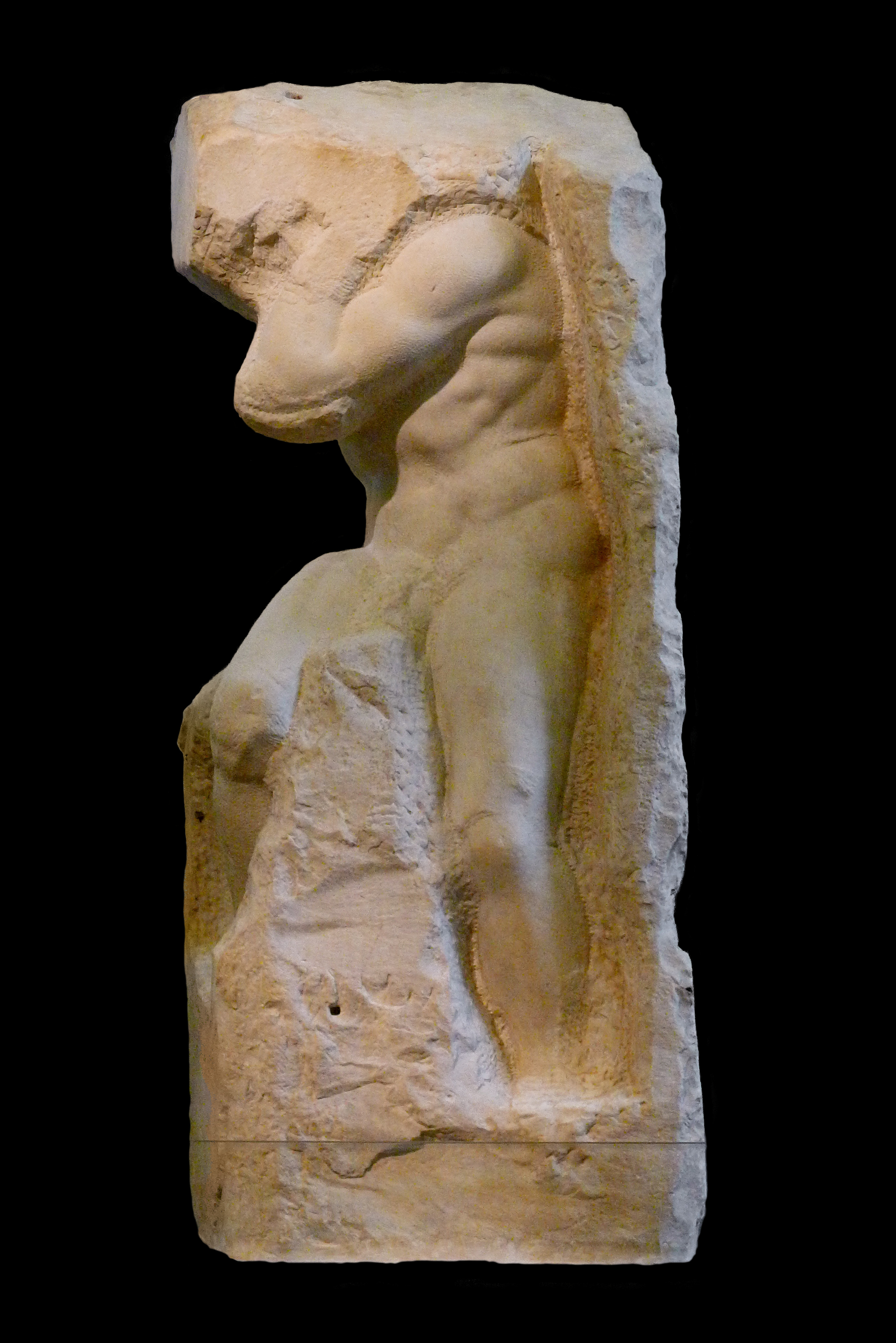 'Atlas Slave' by Michelangelo for the Julius Tomb, 1520-23? Florence, Galleria dell' Accademia